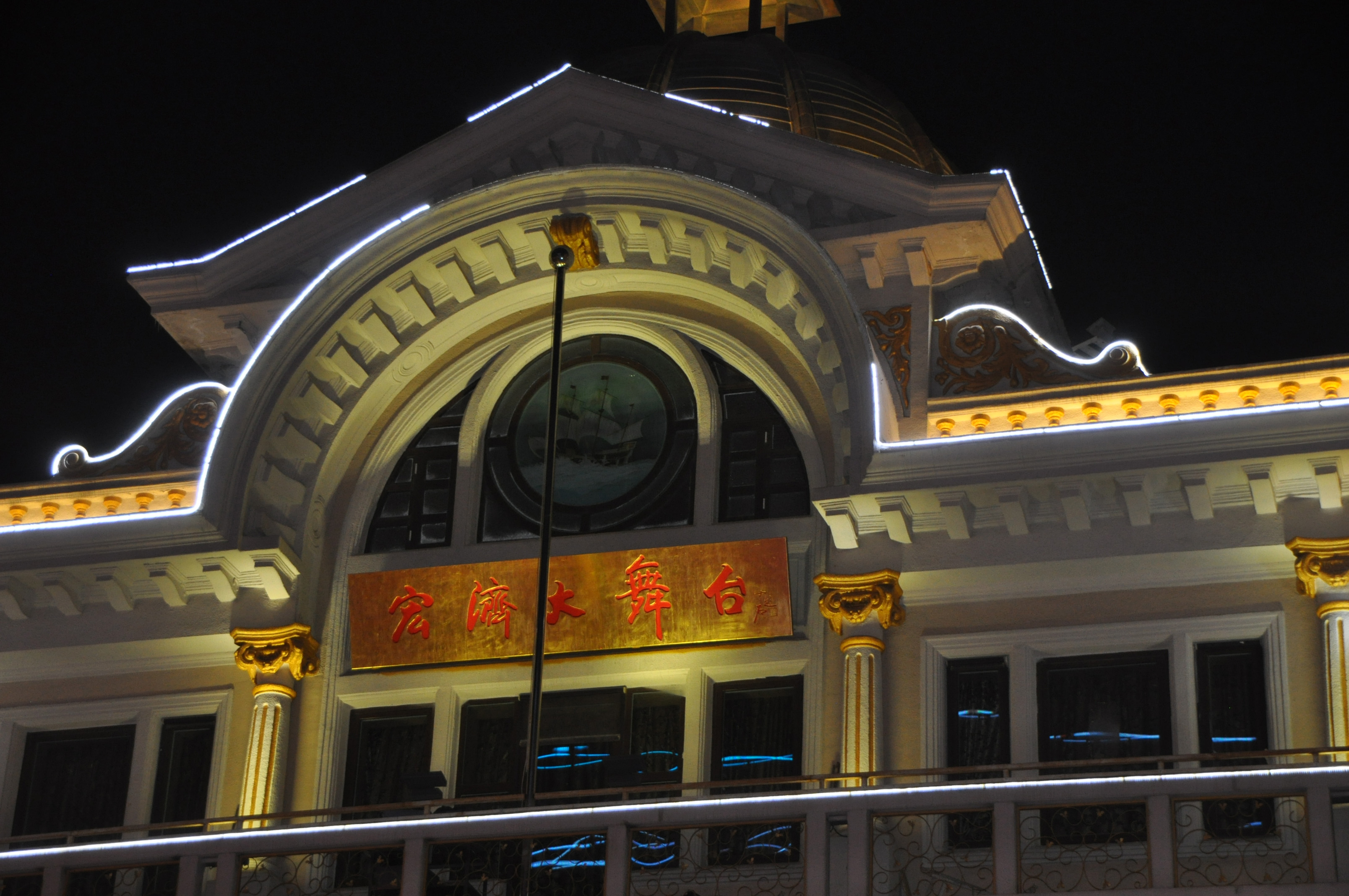 Hongqi Theater in Dalian, China - Bldg. Up